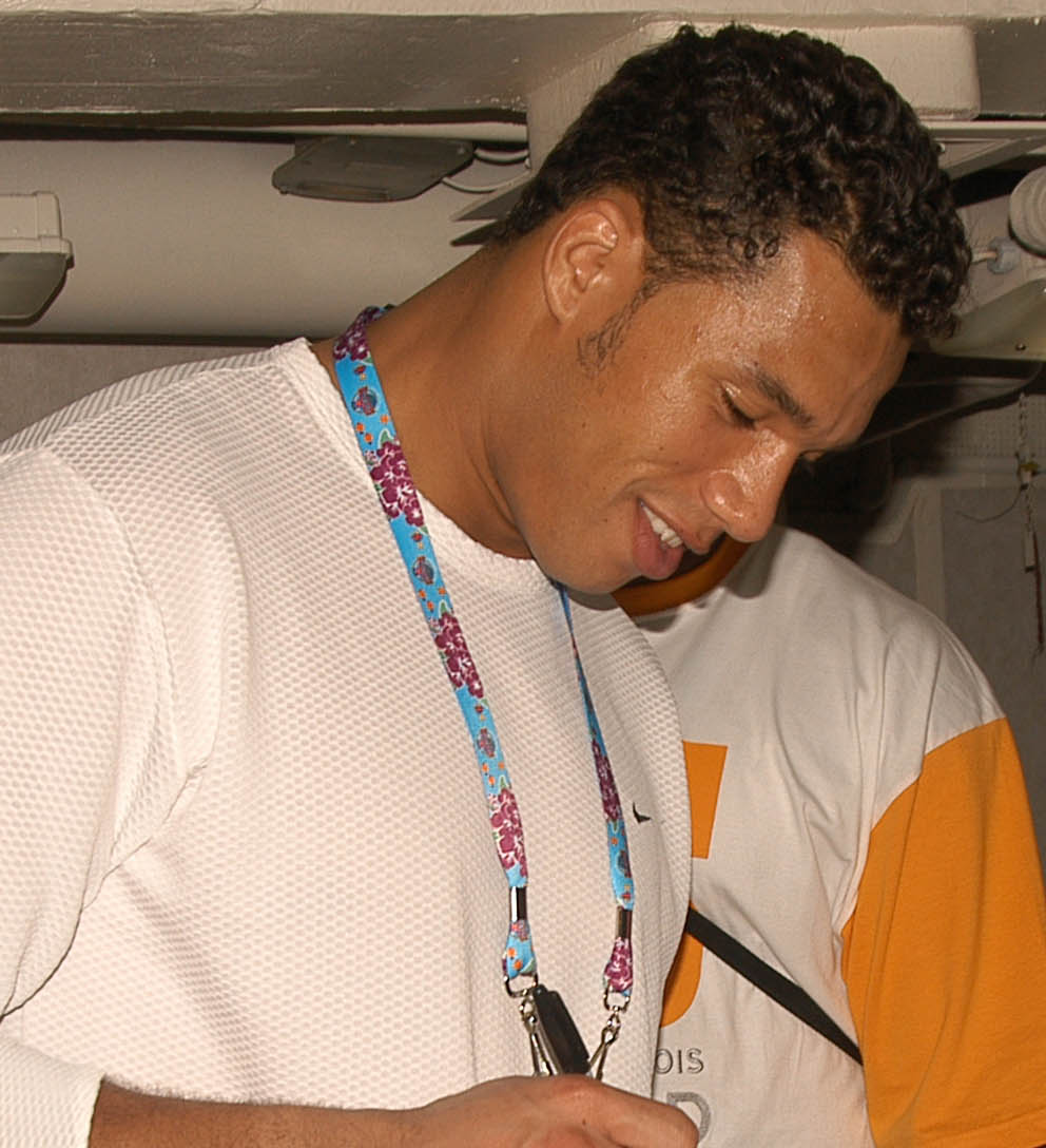 Cincinnati Bengals Tight-End Tony Stewart signs an autograph during a visit to the guided missile cruiser USS Port Royal (CG-73). Stewart visited Pearl Harbor and Port Royal while in Hawaii for the National Football League Pro Bowl.